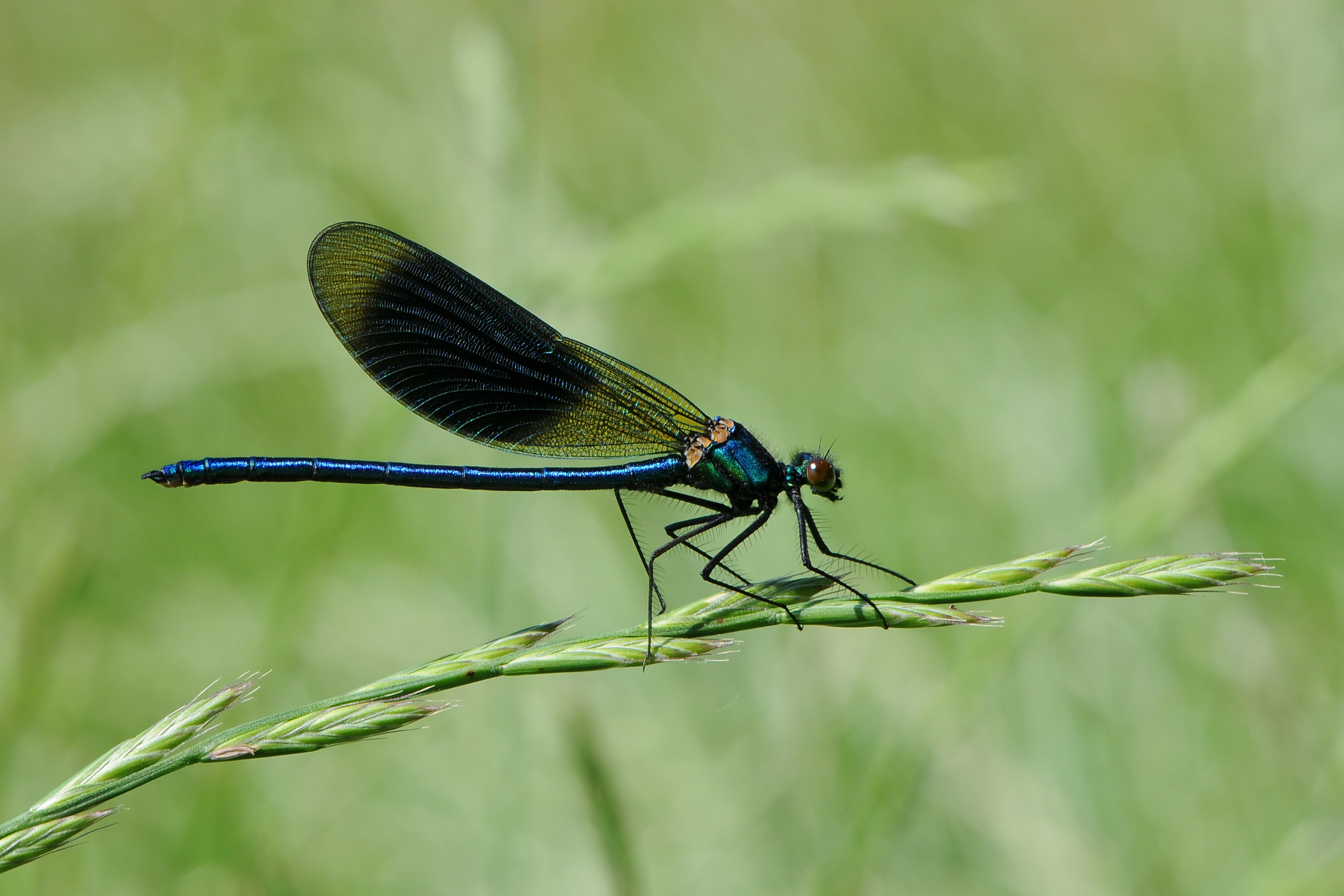 Banded Demoiselle (Calopteryx splendens), male